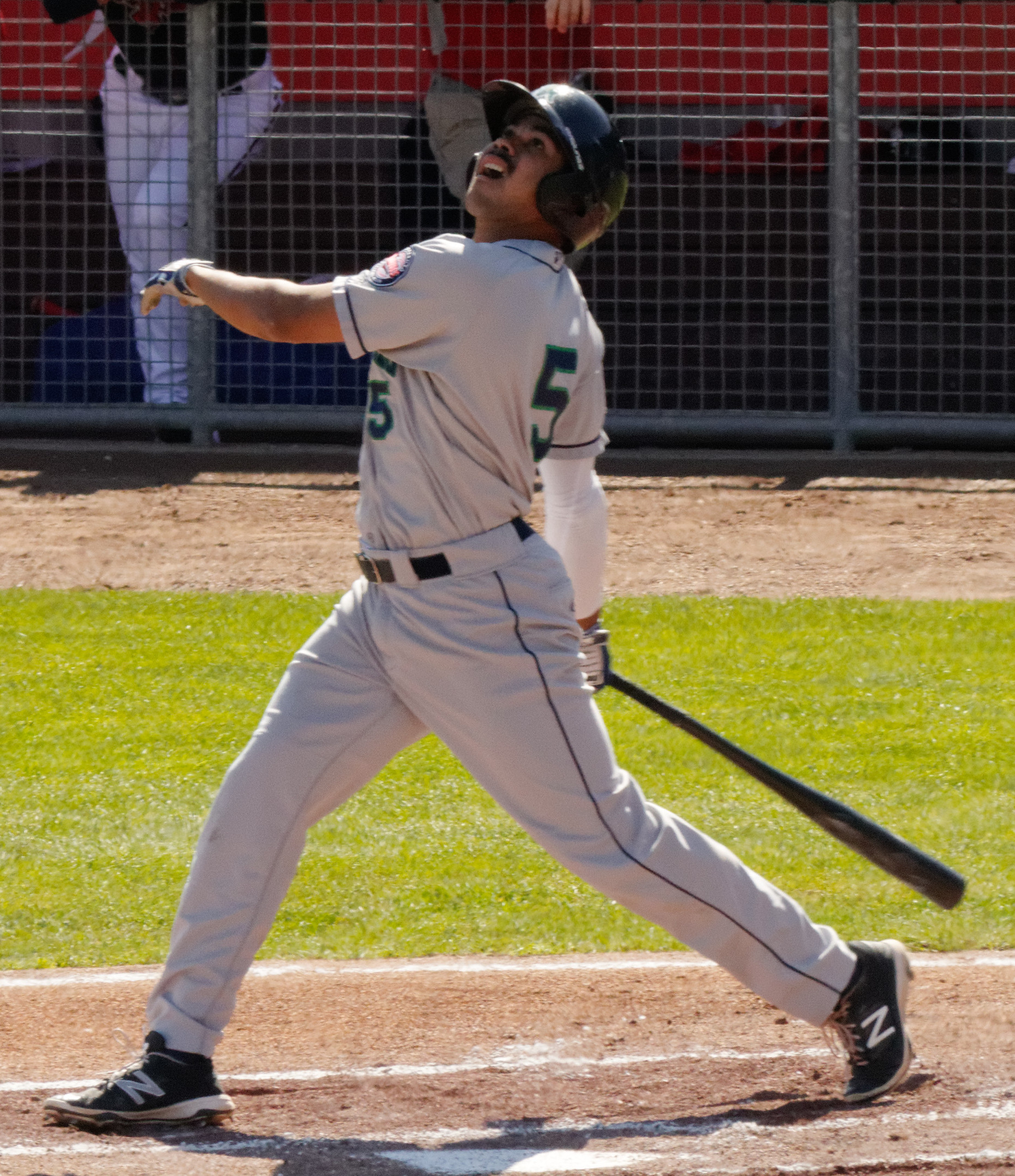 LaMonte Wade bats for the Cedar Rapids Kernels during a 2016 game at Cooley Law School Stadium in Lansing, Michigan